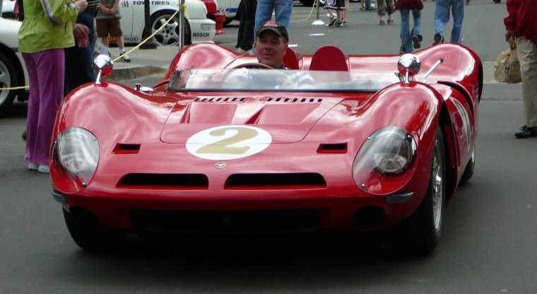 1967 Bizzarrini P538 (chassis #002), with Lamborghini V12 engine installed.